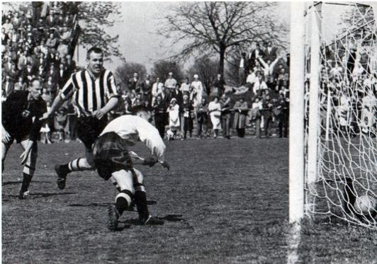 Sigvard Pettersson, nicknamed "Kallinge" scores vs Motala, he representated Landskrona BoIS during the 1950s and scored 297 goals at 312 matches for the club. Location - Landskrona IP (the venue) in Landskrona, Scania, Sweden